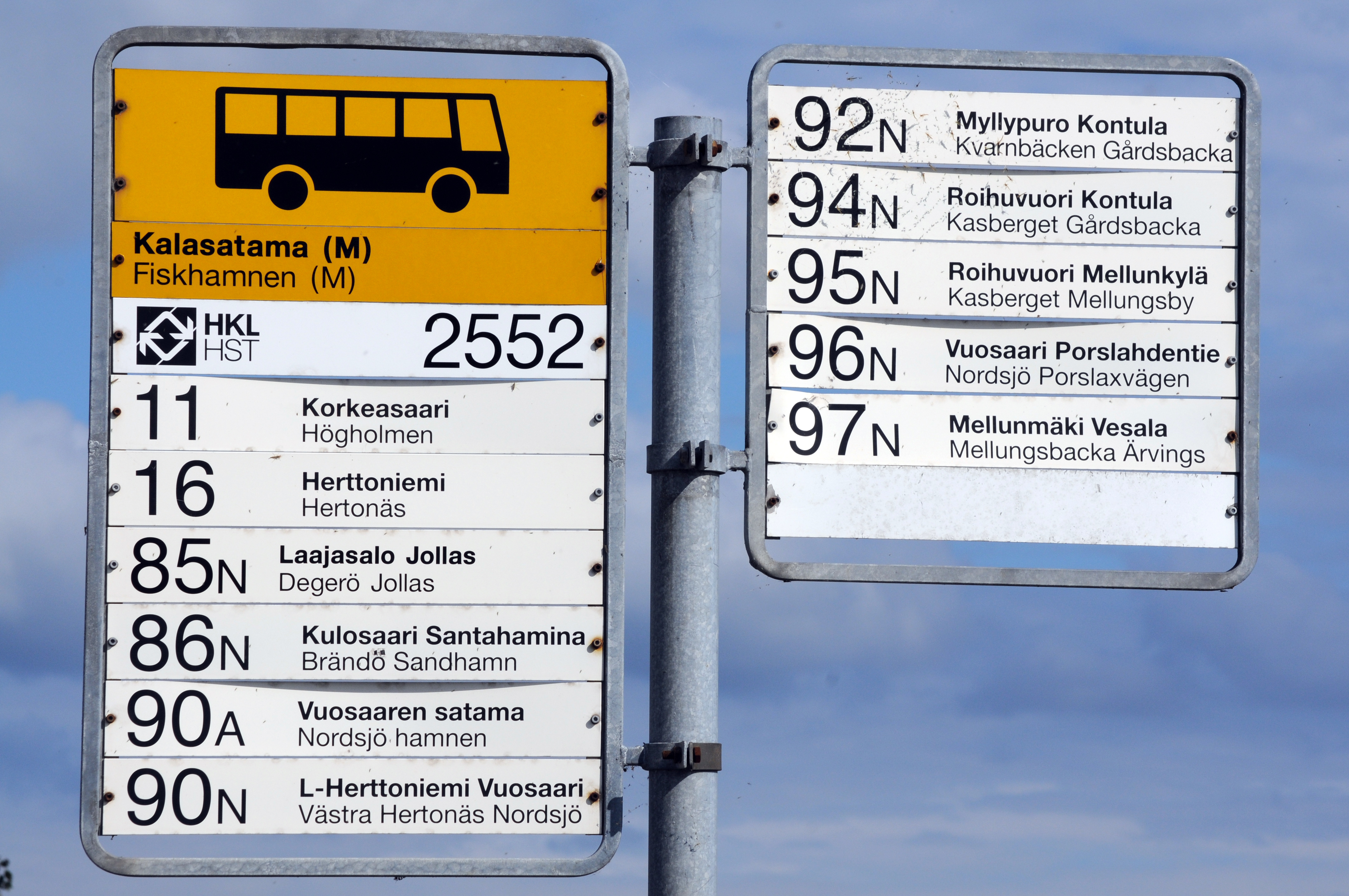 The sign of Kalastama bus stop in Helsinki, Finland.